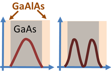 Electron probabilities for first and second energy states in a GaAs well inside GaAlAs; patterned after G Bastard, JA Brum, R Ferreira (1991) "Figure 10 in Electronic States in Semiconductor Heterostructures" in Henry Ehrenreich, David Turnbull, eds , ed. Solid state physics: Semiconductor Heterostructures and Nanostructures, p. 259 ISBN: 0126077444.